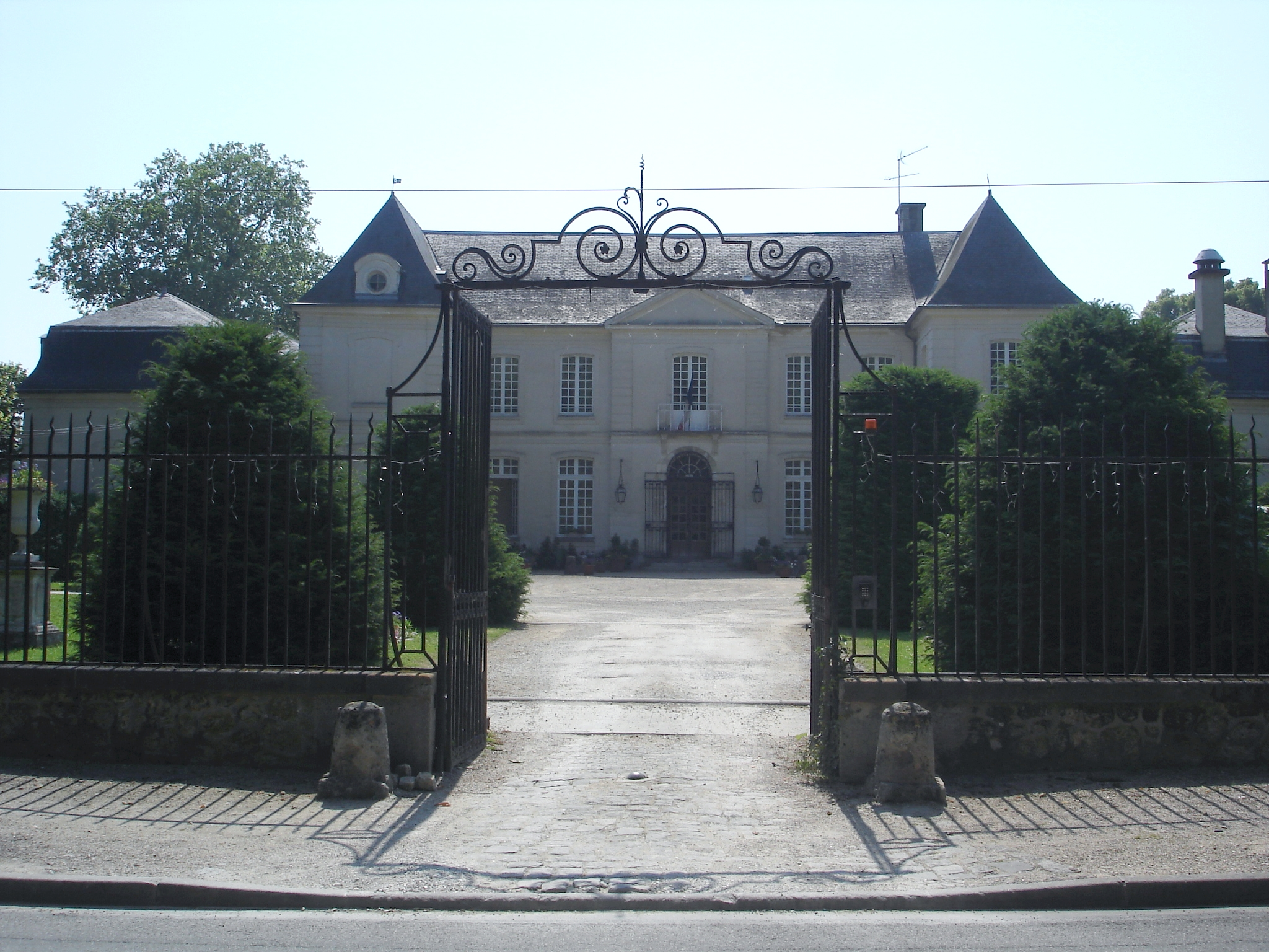 "Chateau d'Etry": One of the 3 manors in the French village of Annet-sur-Marne in Île de France (France).